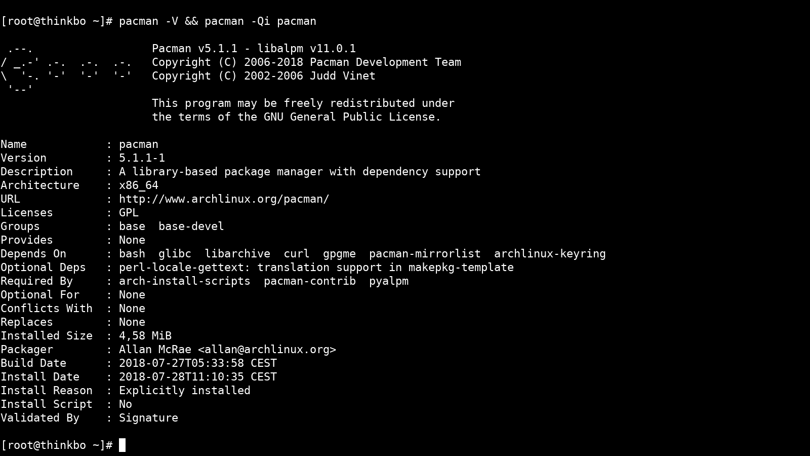 output of pacman -V && pacman -Qi pacman